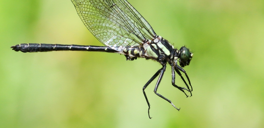 Northern Pygmy Clubtail (Lanthus parvulus), Chemin Bennett, Irlande, Les Appalaches, QC, Canada